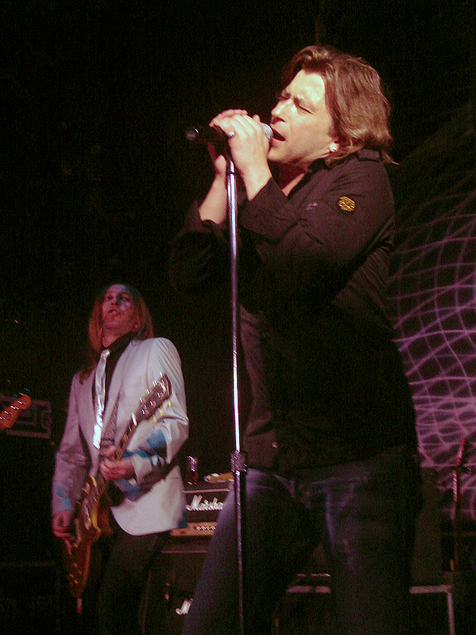 Russian band BI-2 in Koln, 2008